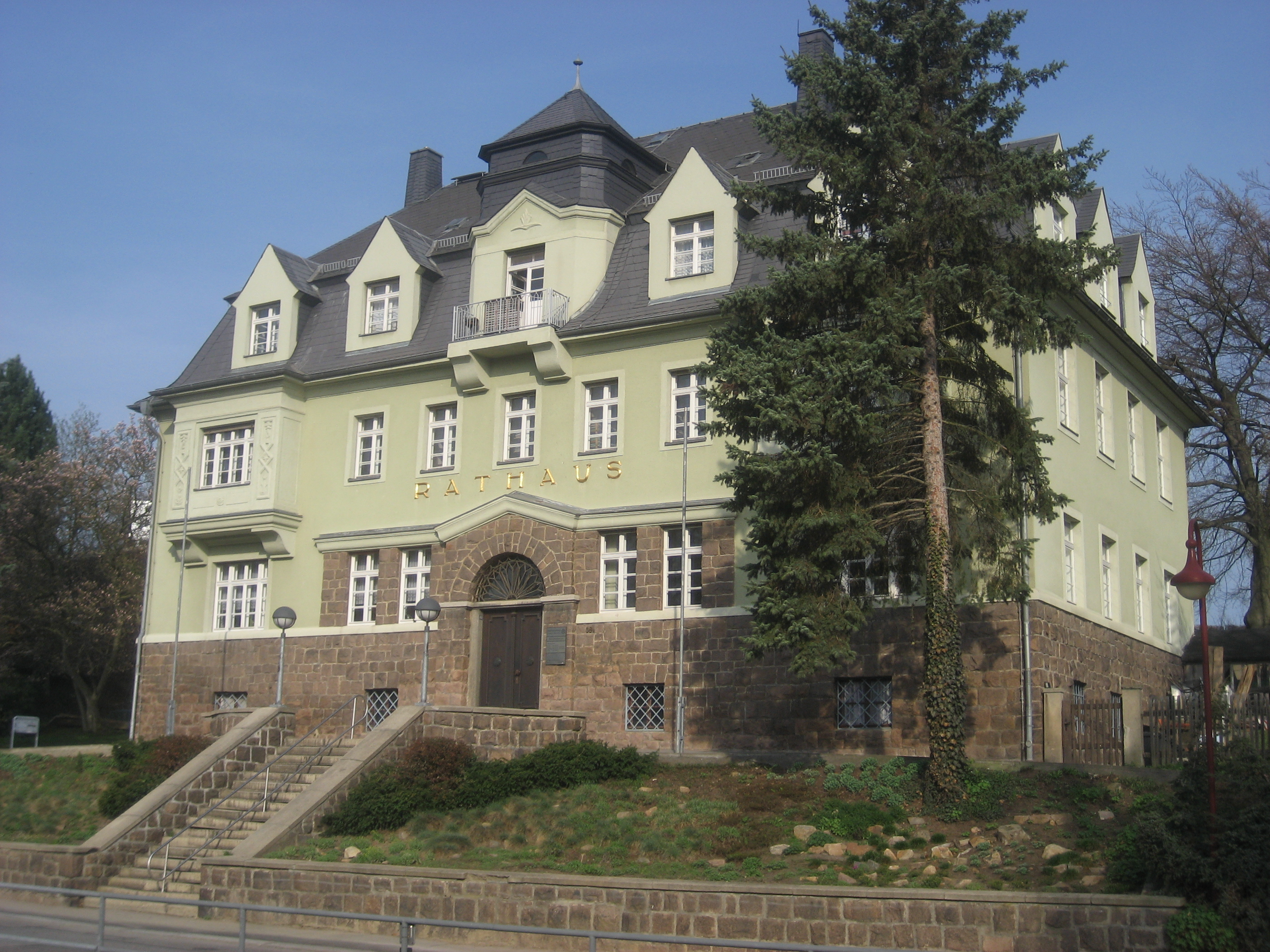 Town hall Pleißa (Limbach-Oberfrohna)